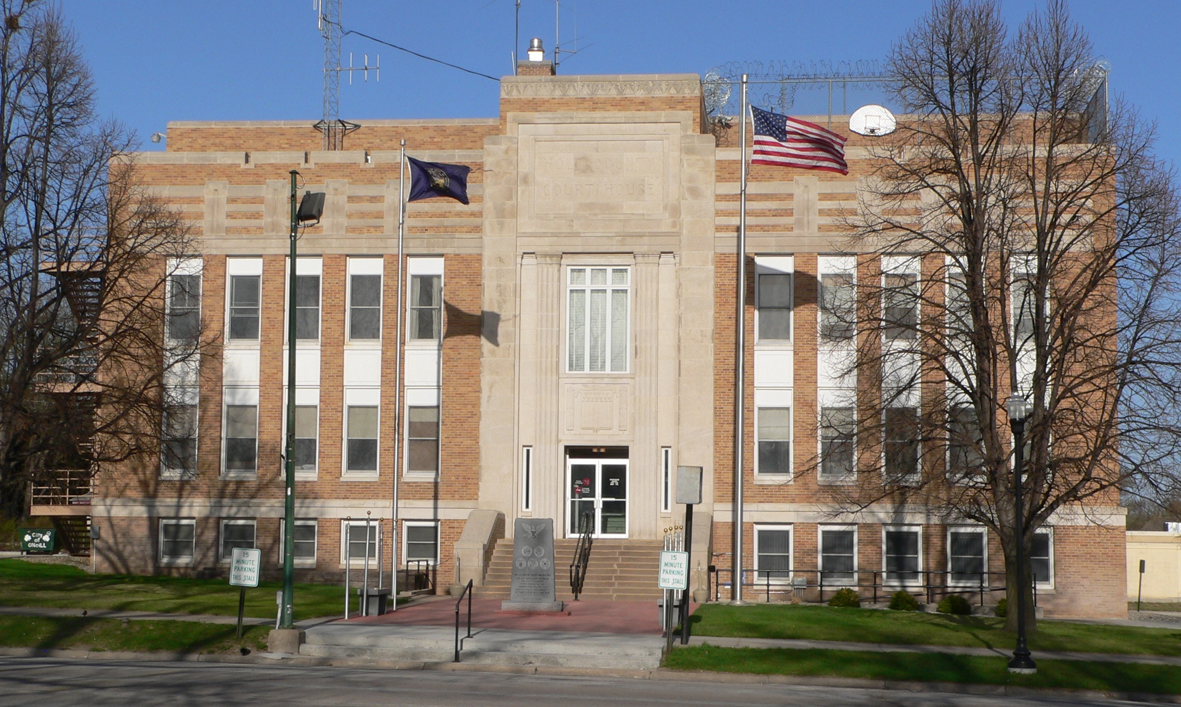 Holt County Courthouse in O'Neill, Nebraska; seen from the west. The Art Deco building was constructed in 1936, and is listed in the National Register of Historic Places.